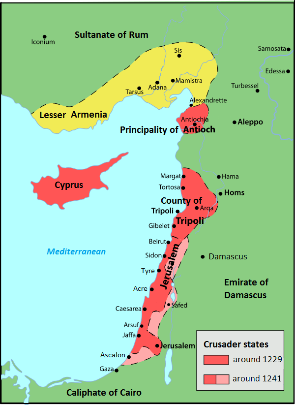 A political map of the Near East from 1229 until 1241 CE.